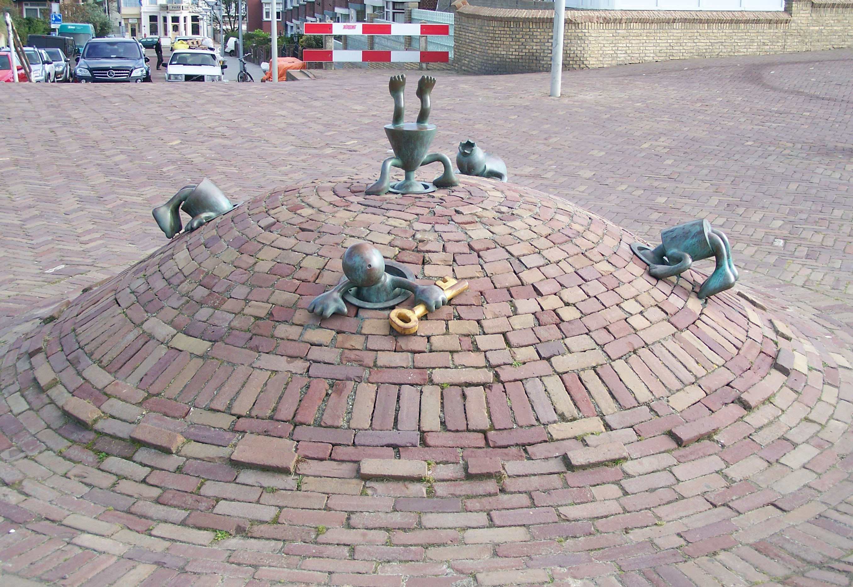 Sculpture "Curious figures" made by Tom Otterness in 2004 as part of the fairytale sculptures at Beelden aan Zee in Scheveningen (The Hague).